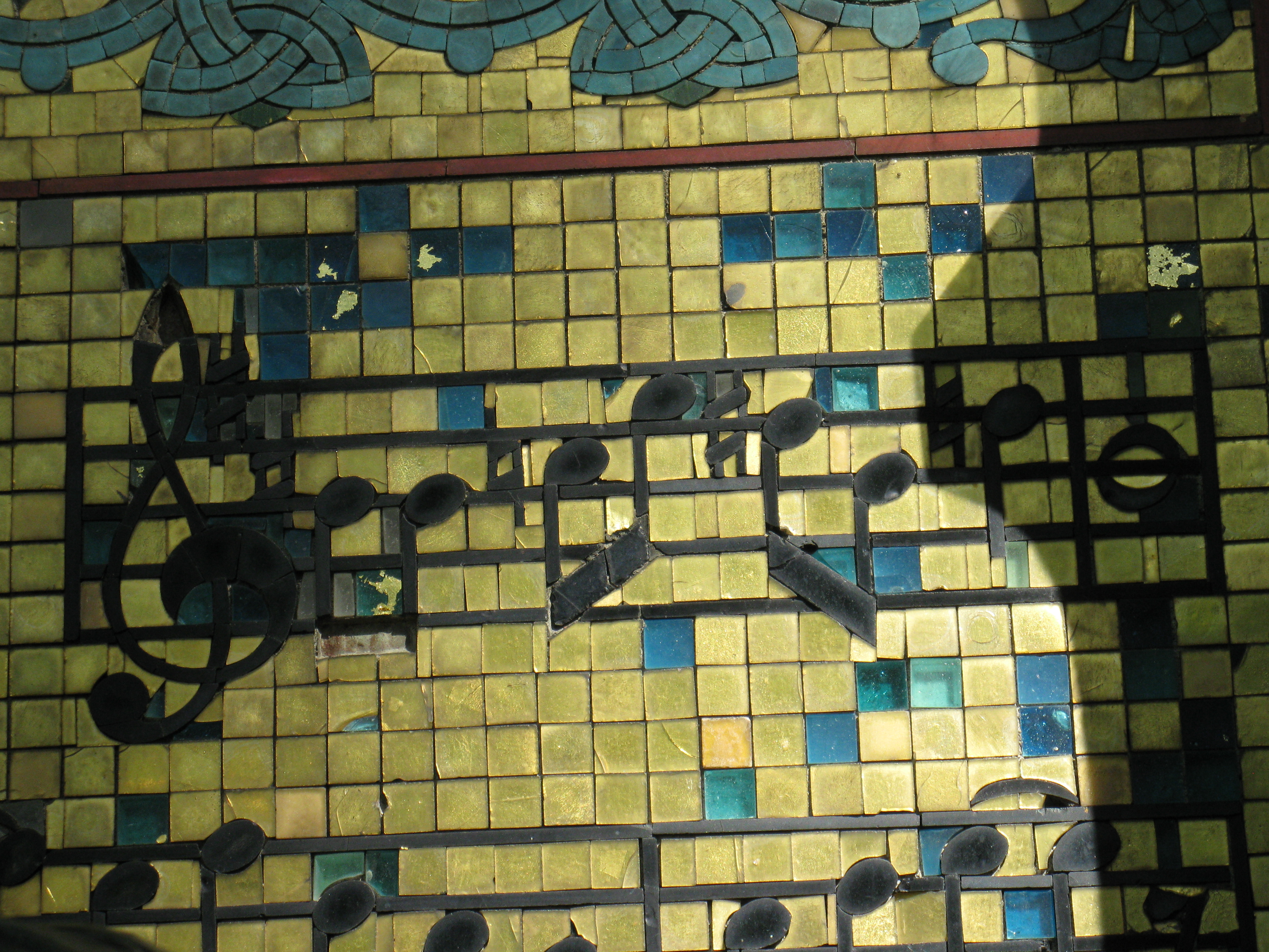 The theme of Borodin's Second symphony in B minor. Borodin's tomb.